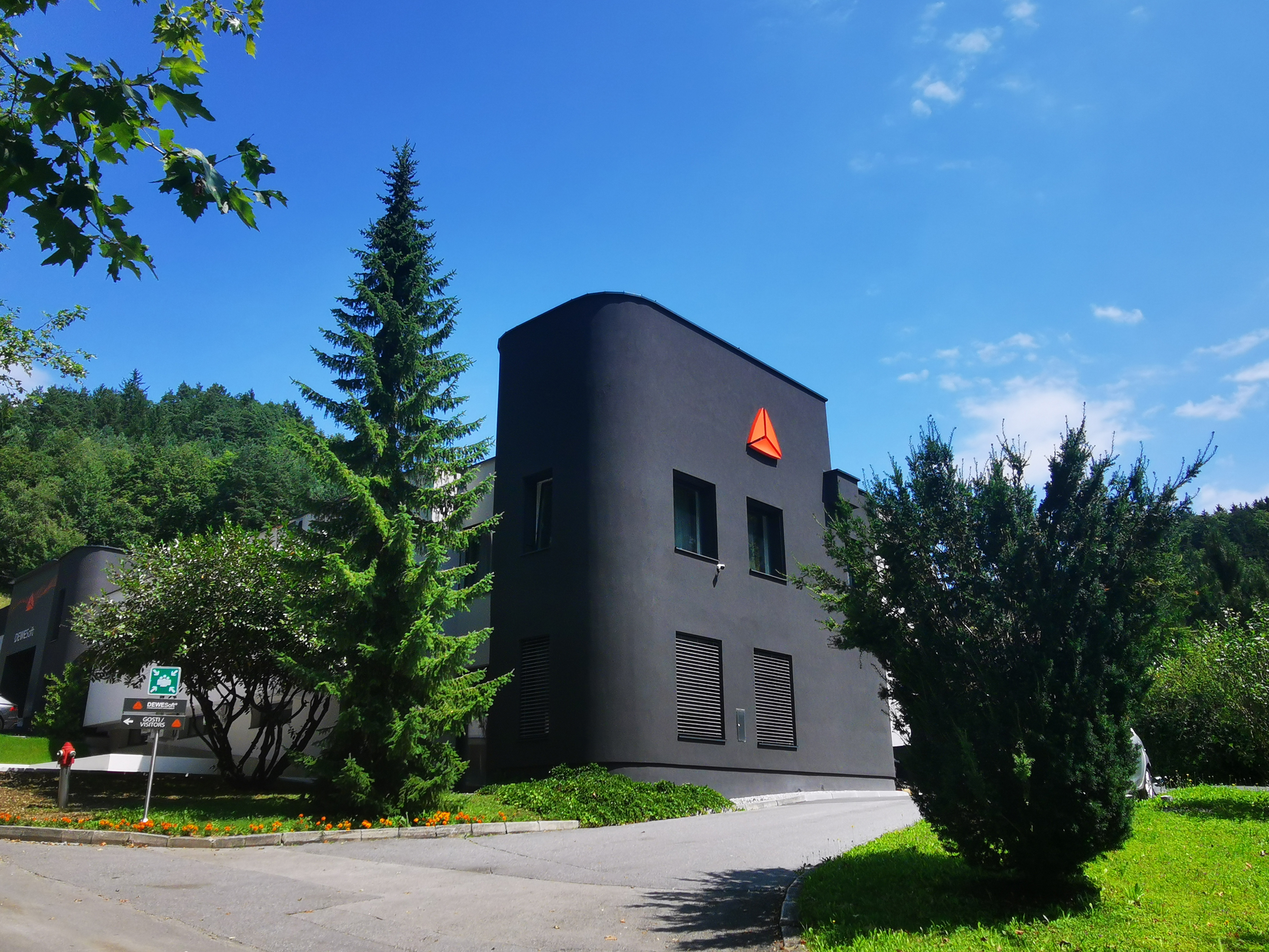 The Dewesoft headquarters in Trbovlje, Slovenia